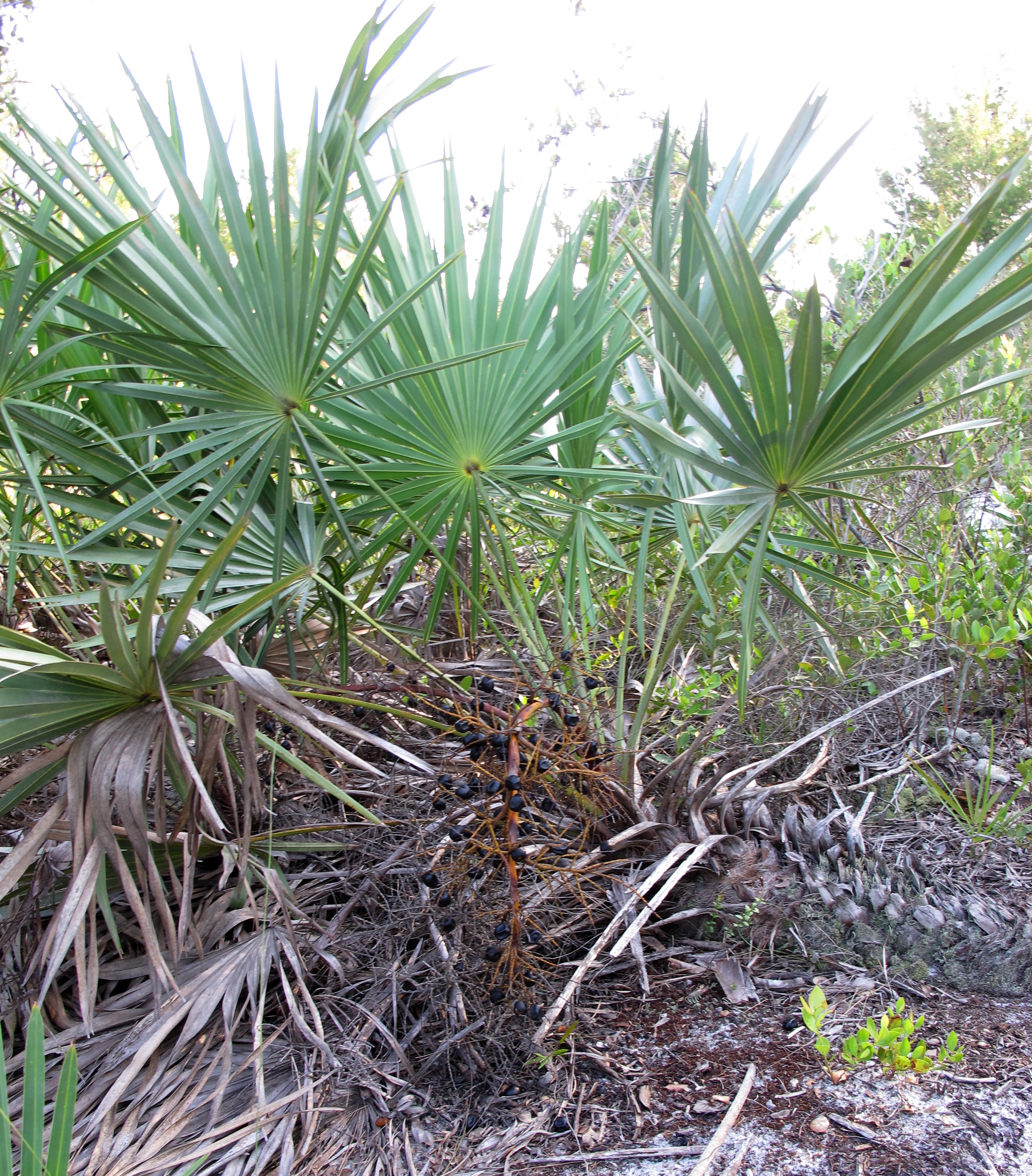 Serenoa repens, Yamato Scrub Natural Area, Boca Raton, Palm Beach County, Florida, USA.